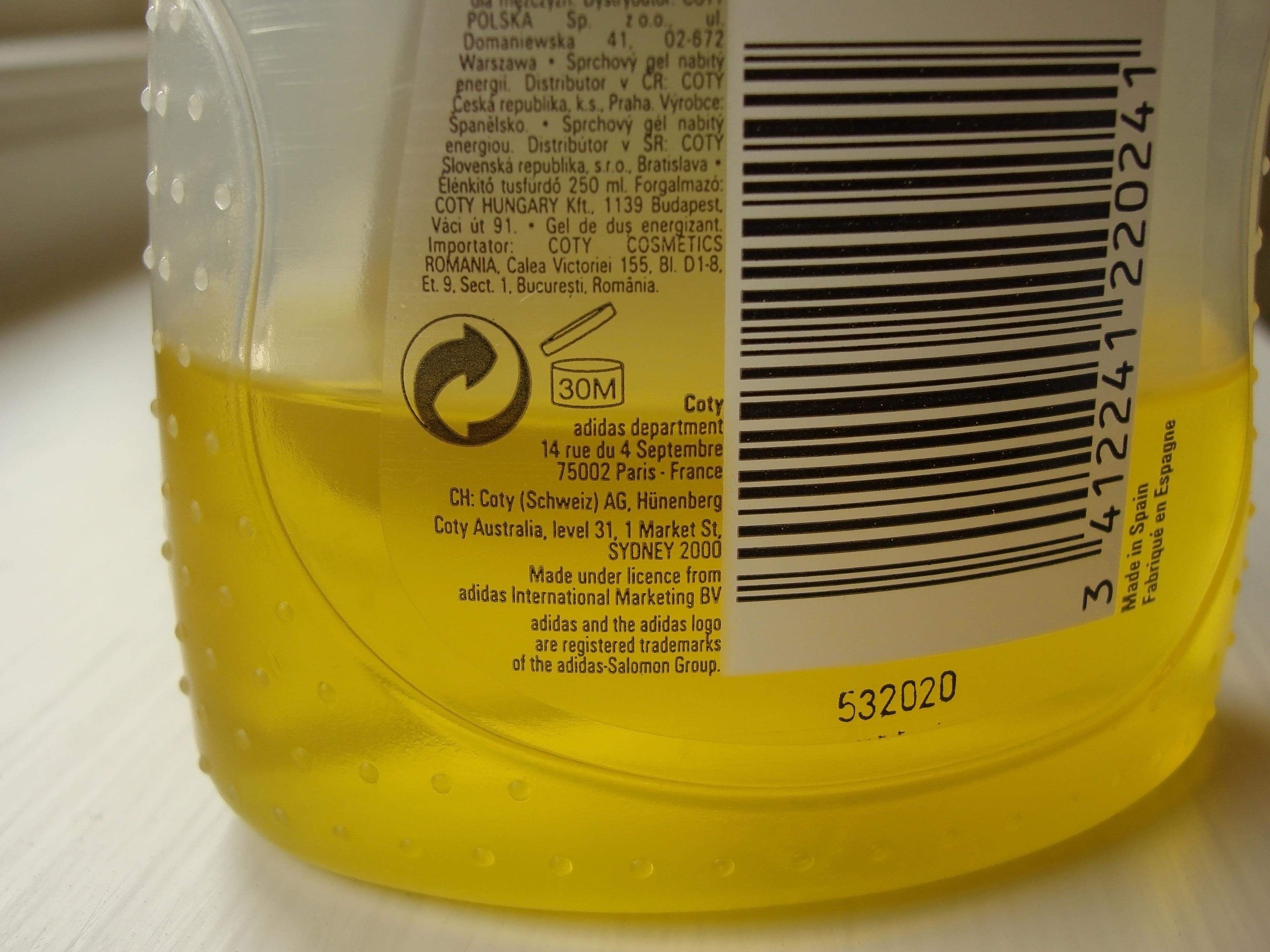 Period-after-opening symbol on a bottle of shower gel.Other version